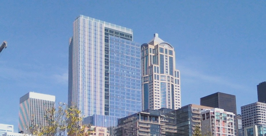 The image represents the Washington Mutual Tower (right) and the WaMu Center (left), both located in Seattle, Washington, as seen from Seattle Aquarium.